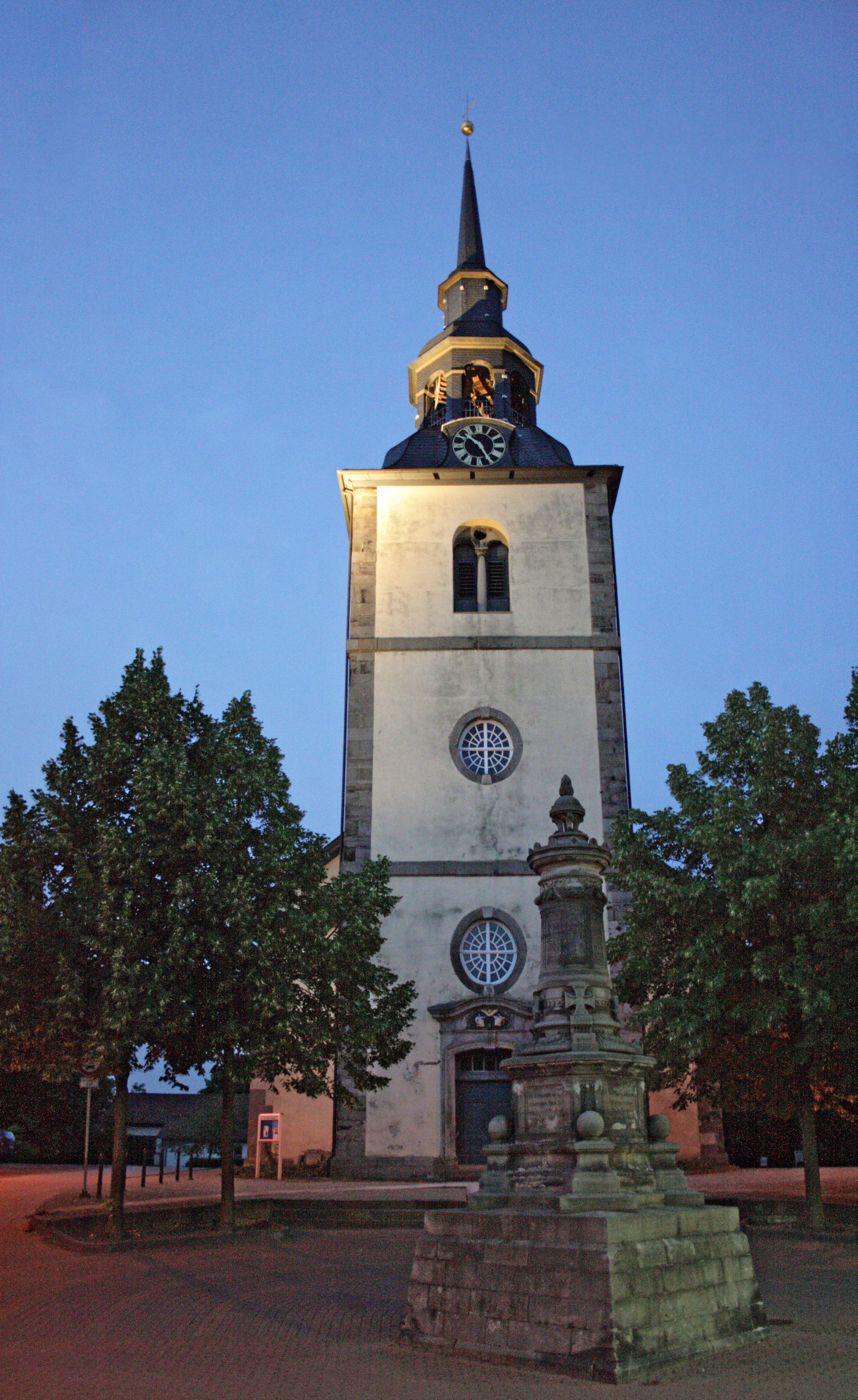 The church Peter und Paul-Kirche in Elze, Germany.